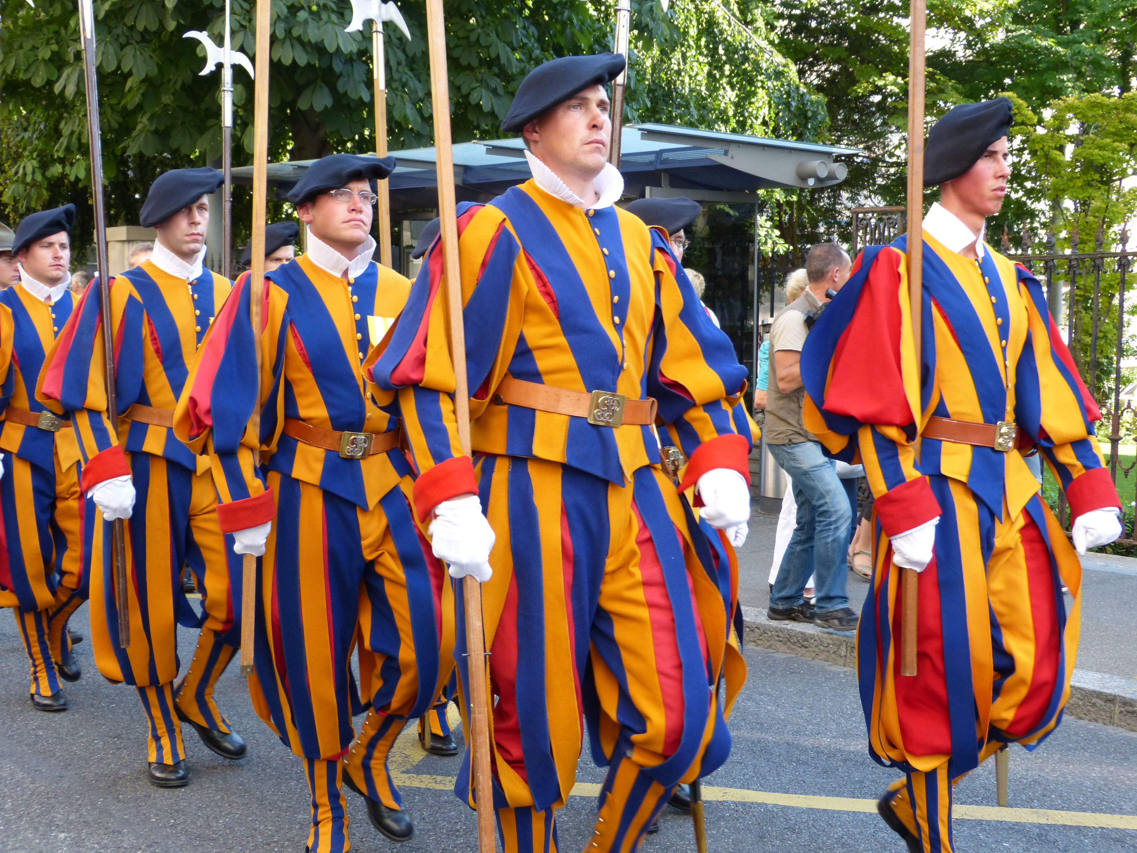 Former Pontifical Swiss Guards on the Avenue du Maupas.